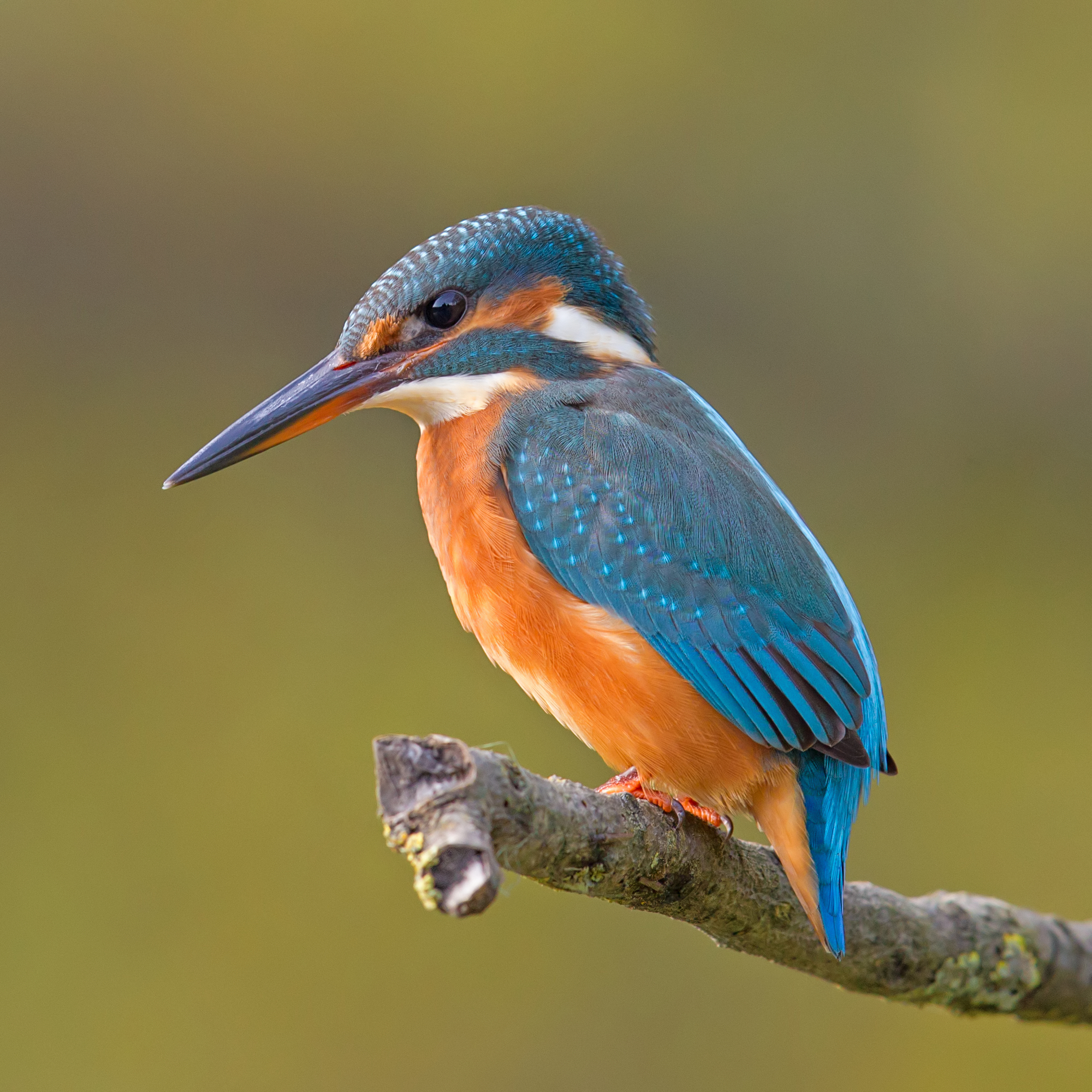 Common Kingfisher, Marburg, Germany